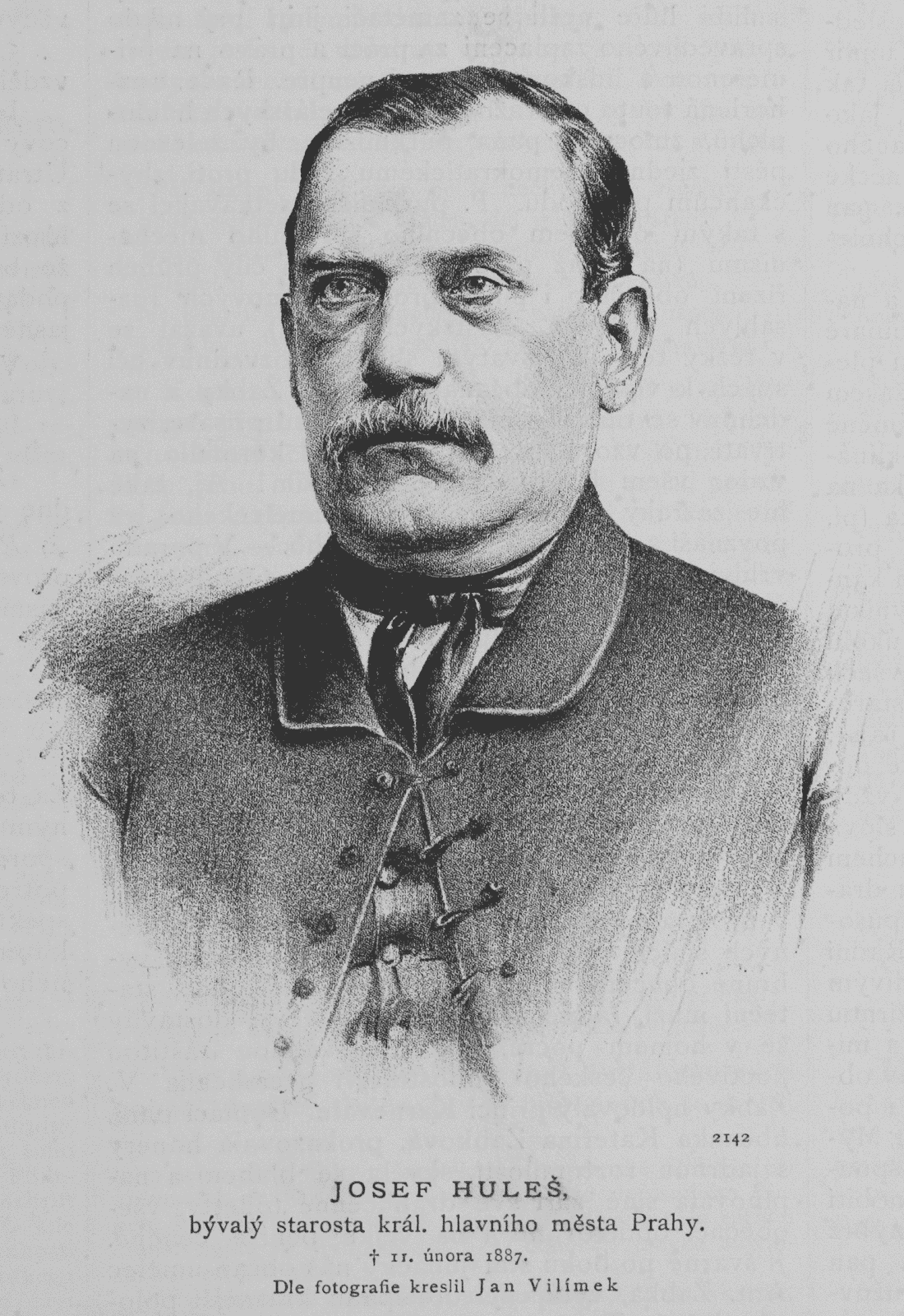 Portrait of Josef Huleš (1813–1887), a municipal politician in Prague and a mayor of this city 1873–1876.